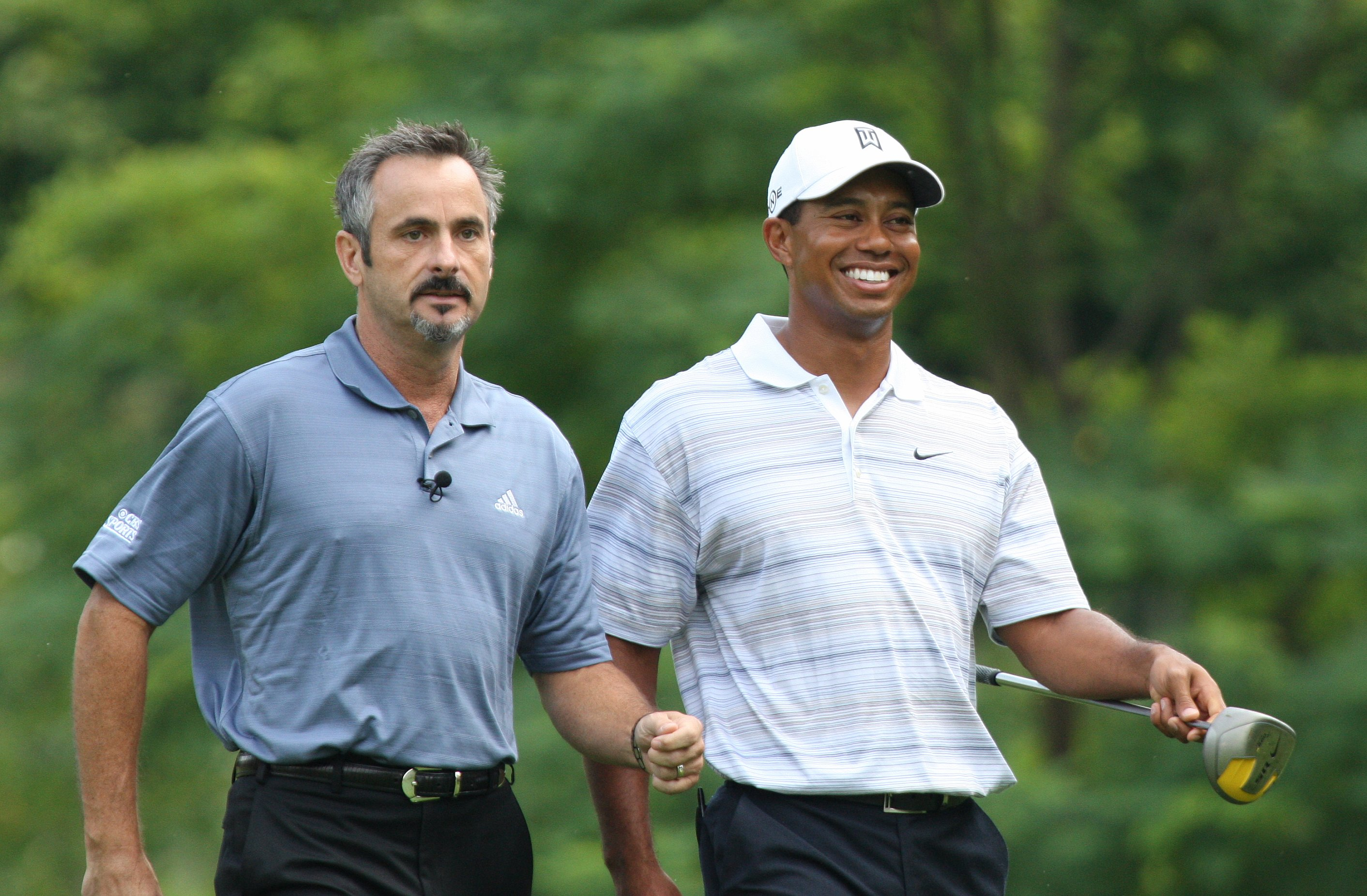 David Feherty and Tiger Woods.